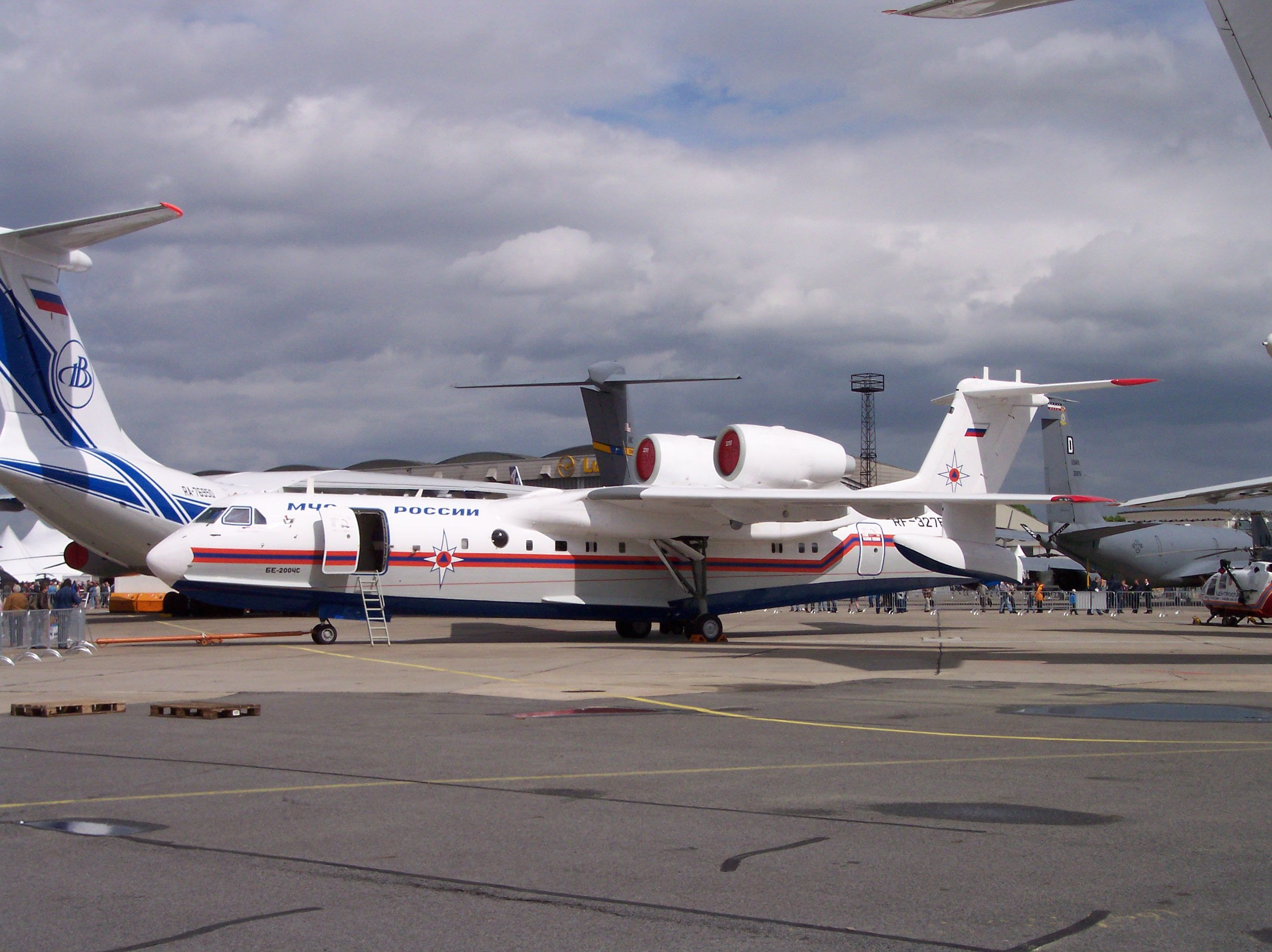 Beriew Be-200 RF-32767 at ILA 2006.